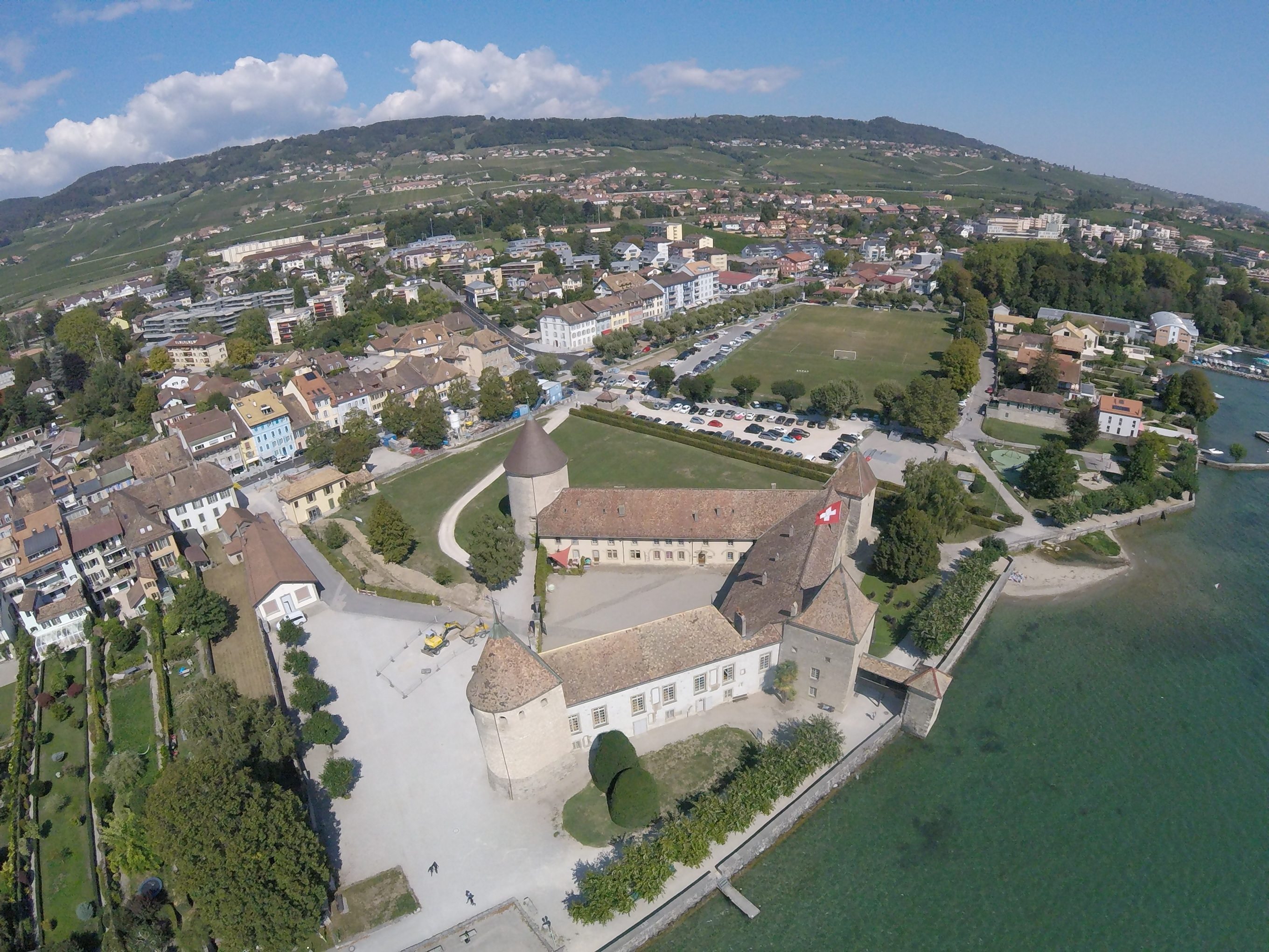 Rolle, a municipality in the Canton of Vaud in Switzerland, aerial view.